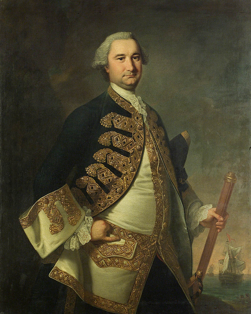 Rear-admiral Richerd Tyrell.